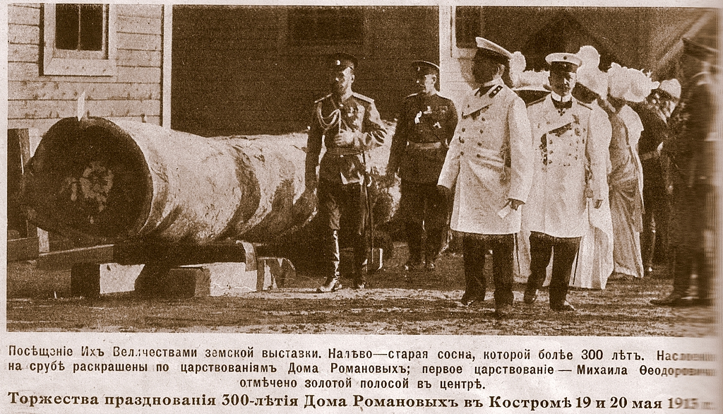 Romanov's jubilee: Nicholas II of Russia in Kostroma (May 1913)